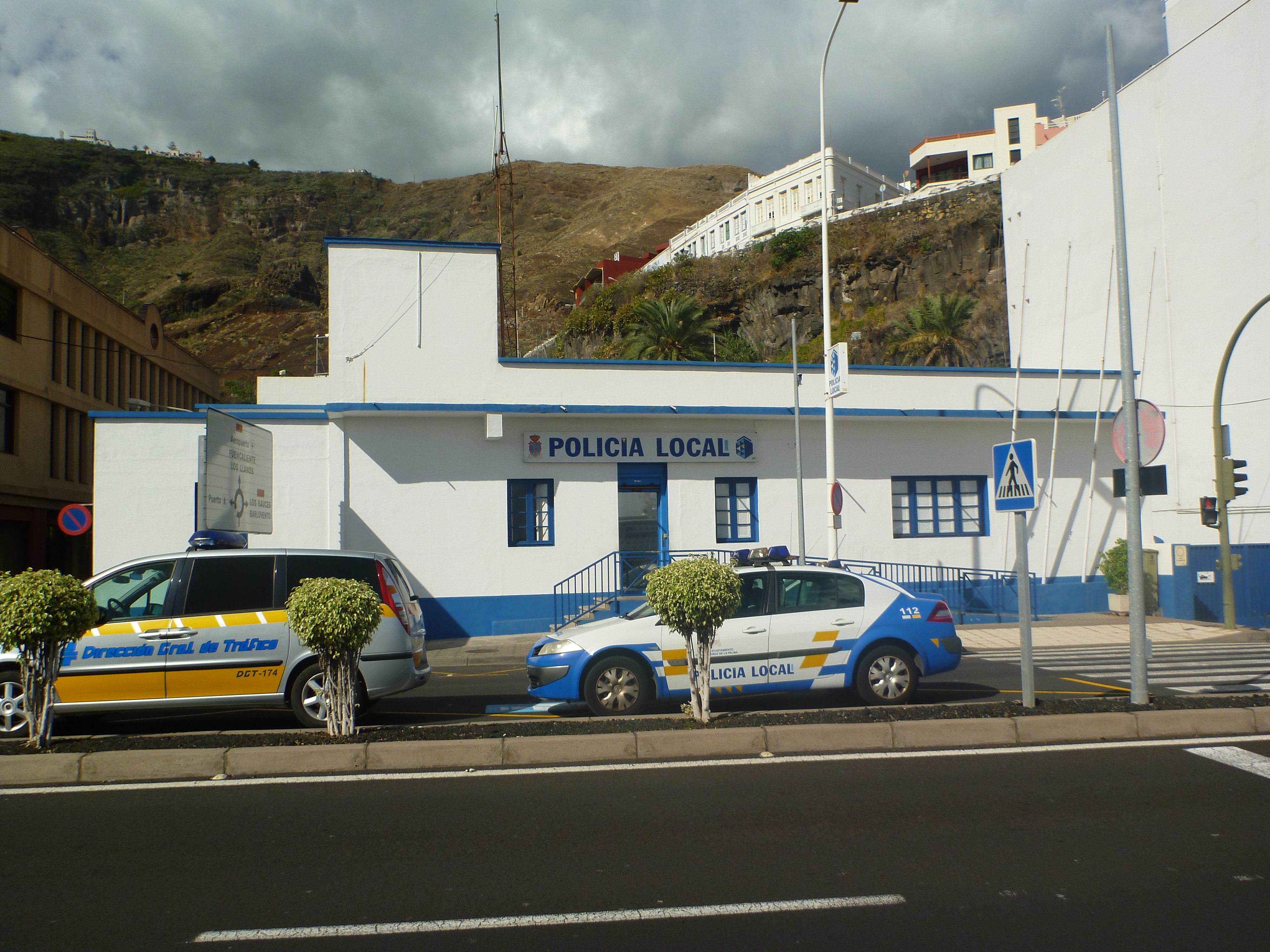 Police station of the Policia Local with a car of Policia Local and a car of the Policía Trafico in Santa Cruz, La Palma